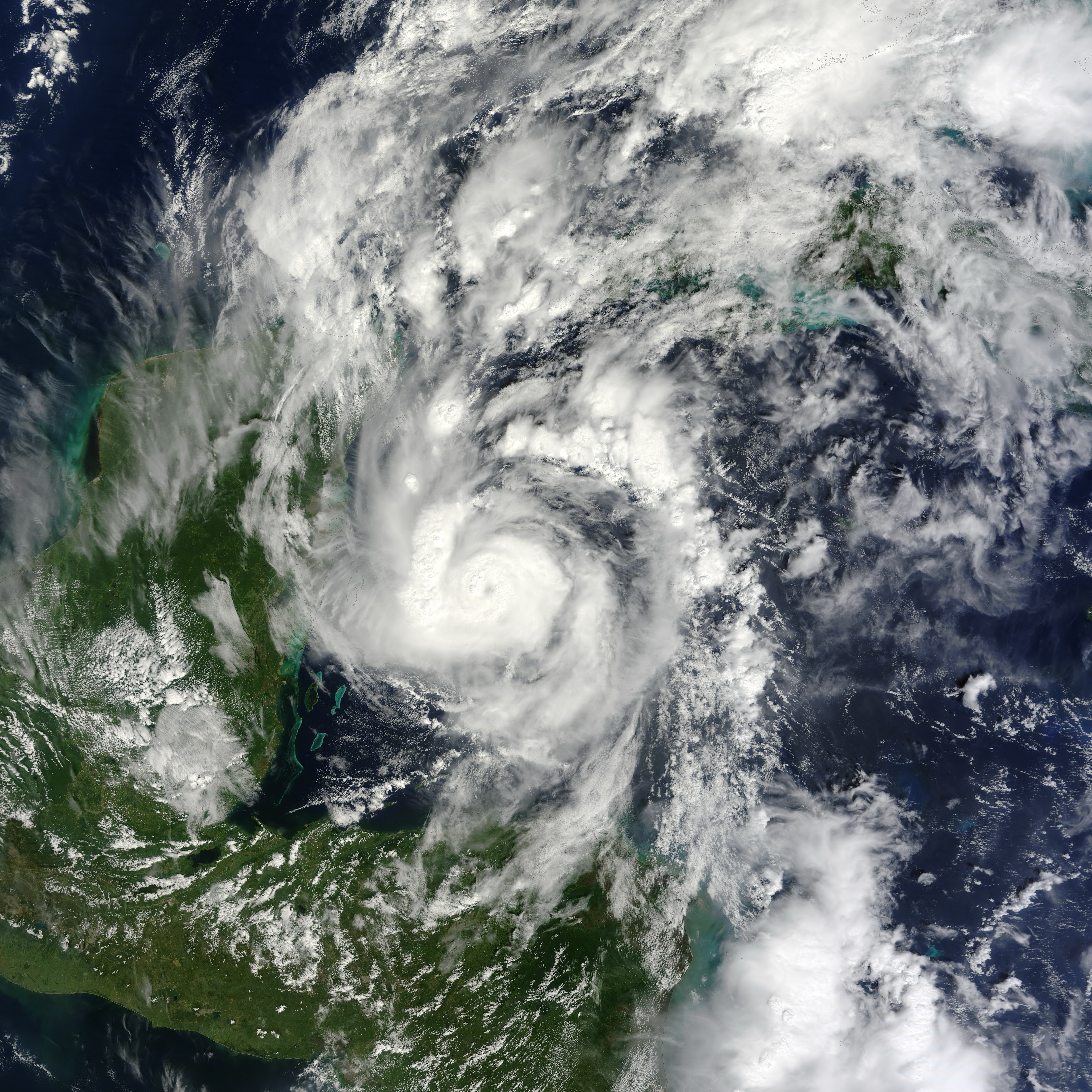 Small but powerful, Hurricane Paula packed winds of 100 miles (160 kilometers) per hour on October 12, 2010. At 12:45 p.m. Central Daylight Time (CDT), the U.S. National Hurricane Center (NHC) reported that Paula was a Category 2 hurricane, located roughly 140 miles (220 kilometers) south-southeast of Cozumel, Mexico, and was traveling slowly toward the north-northwest. The Moderate Resolution Imaging Spectroradiometer (MODIS) on NASA’s Terra satellite captured this natural-color image of Hurricane Paula at 11:20 a.m. CDT (16:20 UTC) on October 12 while over the Caribbean Sea, just off the coasts of Mexico, Belize, and Honduras. Coiled around a distinct eye, the storm’s most intense clouds spanned roughly 200 kilometers (125 miles). By October 14, 2010, Paula had weakened to a tropical storm. At 10:00 a.m. CDT on October 14, the NHC reported that Paula had winds of 70 miles (110 kilometers) per hour. Though less intense than it had been two days earlier, Paula still posed hazards. A tropical storm warning was in effect for parts of Cuba, and a tropical storm watch was in effect for parts of the Florida Keys. The NHC warned of high winds and heavy rains—amounting to 10 inches (25 centimeters) in isolated areas.